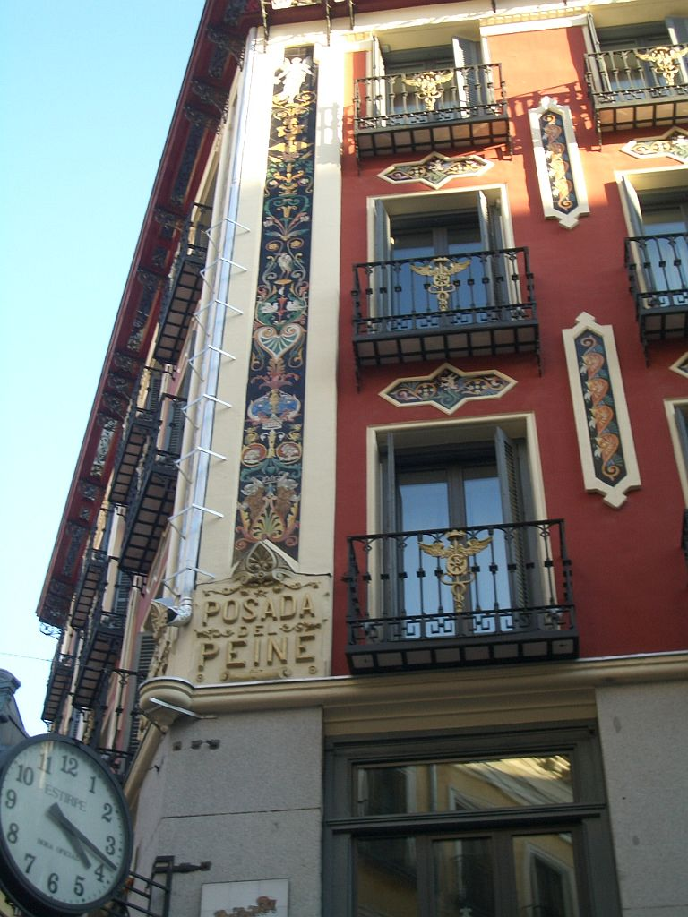 Partial view of the Posada del Peine (a hotel) at 17 Calle de Postas (street) in Madrid (Spain). Building was projected by Antonio de Cachavera y Lángara and built from 1857 to 1858. The present façade was made from 1891 to 1892.